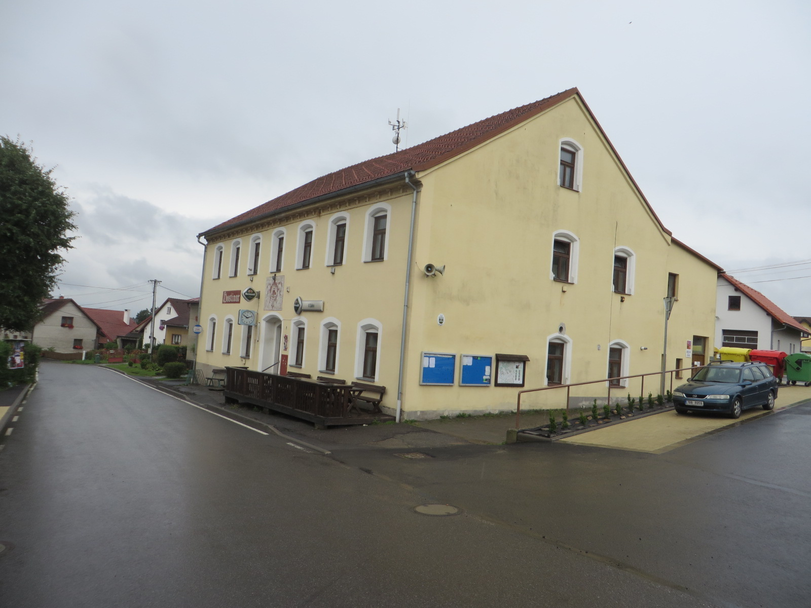 Zubří, Žďár nad Sázavou District, Czechia. Municipal office.